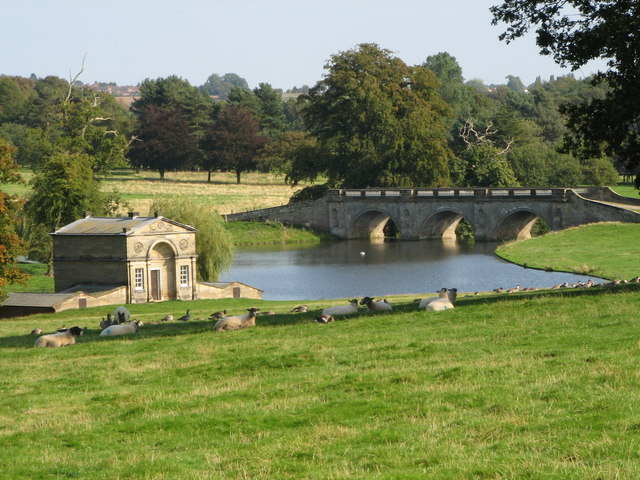 Boat House and Bridge - Kedleston Hall A view from the road leading out of Kedleston Park. The sun was hot enough for the sheep to look for the shade of a tree even in the late afternoon of a September day